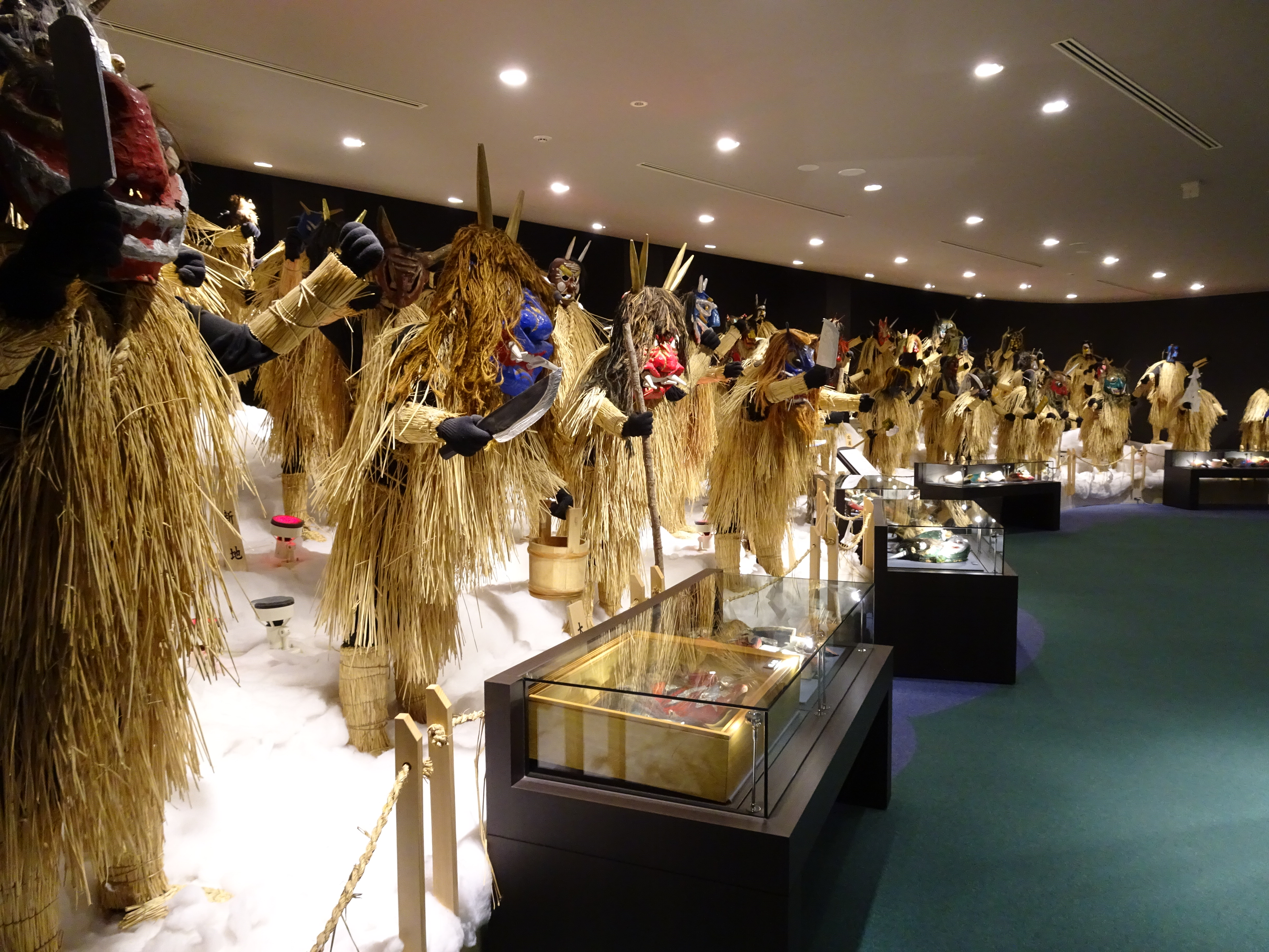 Namahage, the Japanese traditional demonlike being in Akita prefecture. This photo was taken at Namahage-kan (Namahage House) in Oga City, Akita Prefecture.